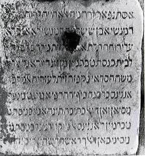 A stone of the 1908-collapsed synagogue at Messina.